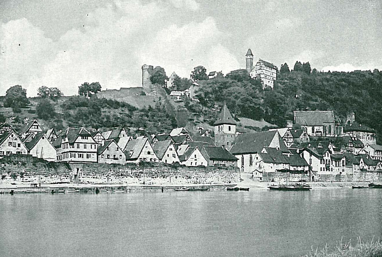 historical view of Hirschhorn